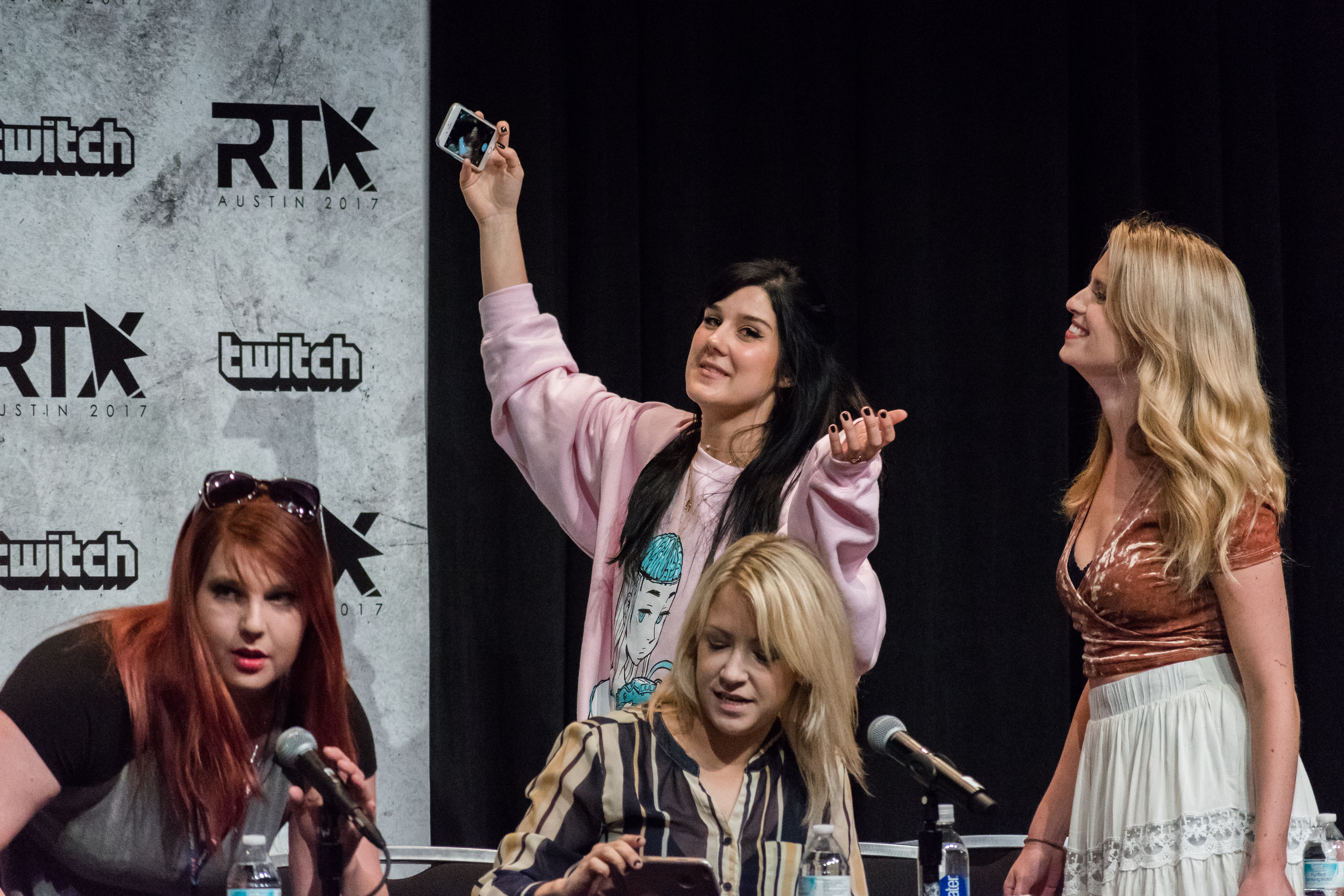 Lindsey Jones, Kara Eberle, Arryn Zech, Barbara Dunkelman at RTX 2017 convention in Austin, Texas during the "RWBY" panel discussion.